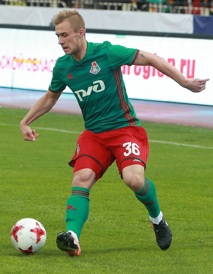 Dmitri Barinov with FC Lokomotiv Moscow in a game against FC Arsenal Tula.